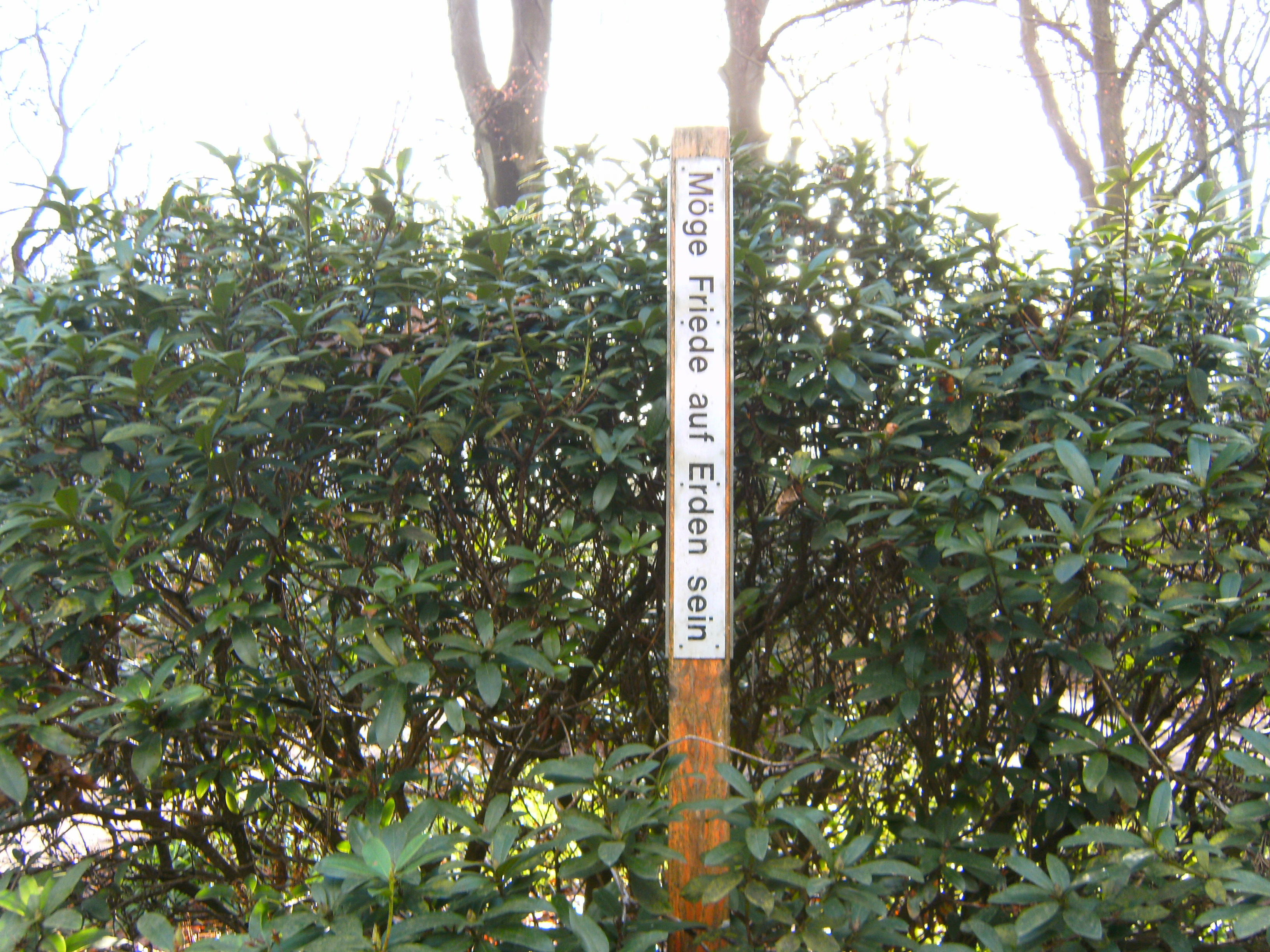 Hamburg Stadtpark (urban park): Peace pole a 100 meter south of Planetarium.